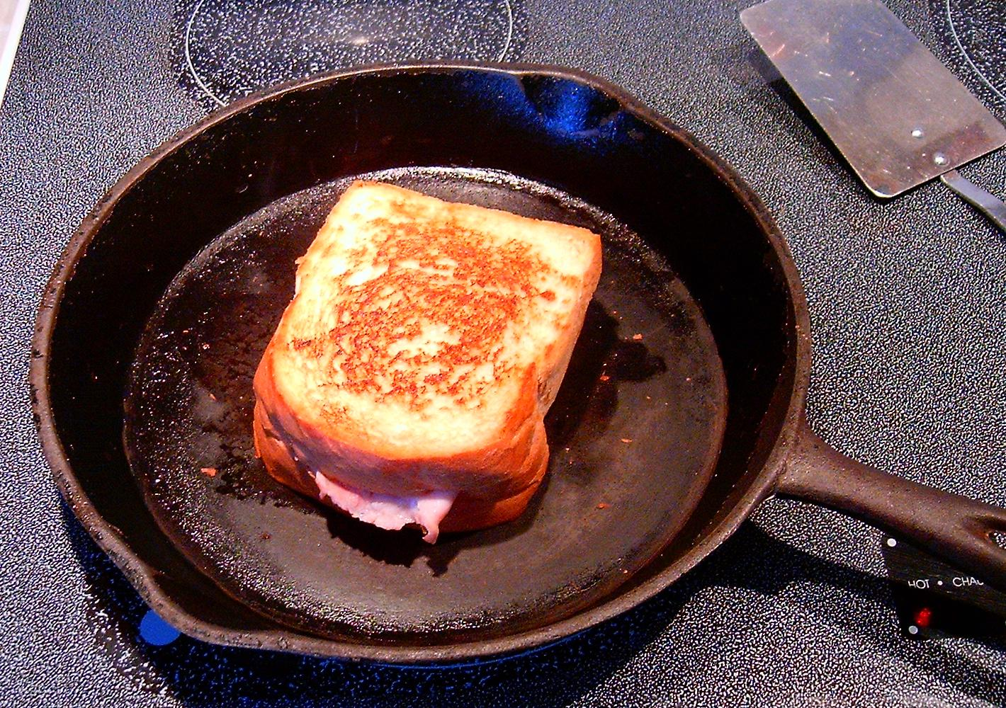 Grilled Ham and Cheese Sandwich